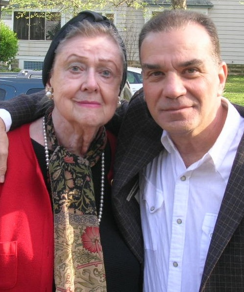 Elizabeth Wilson and Alan Safier at Inge Festival